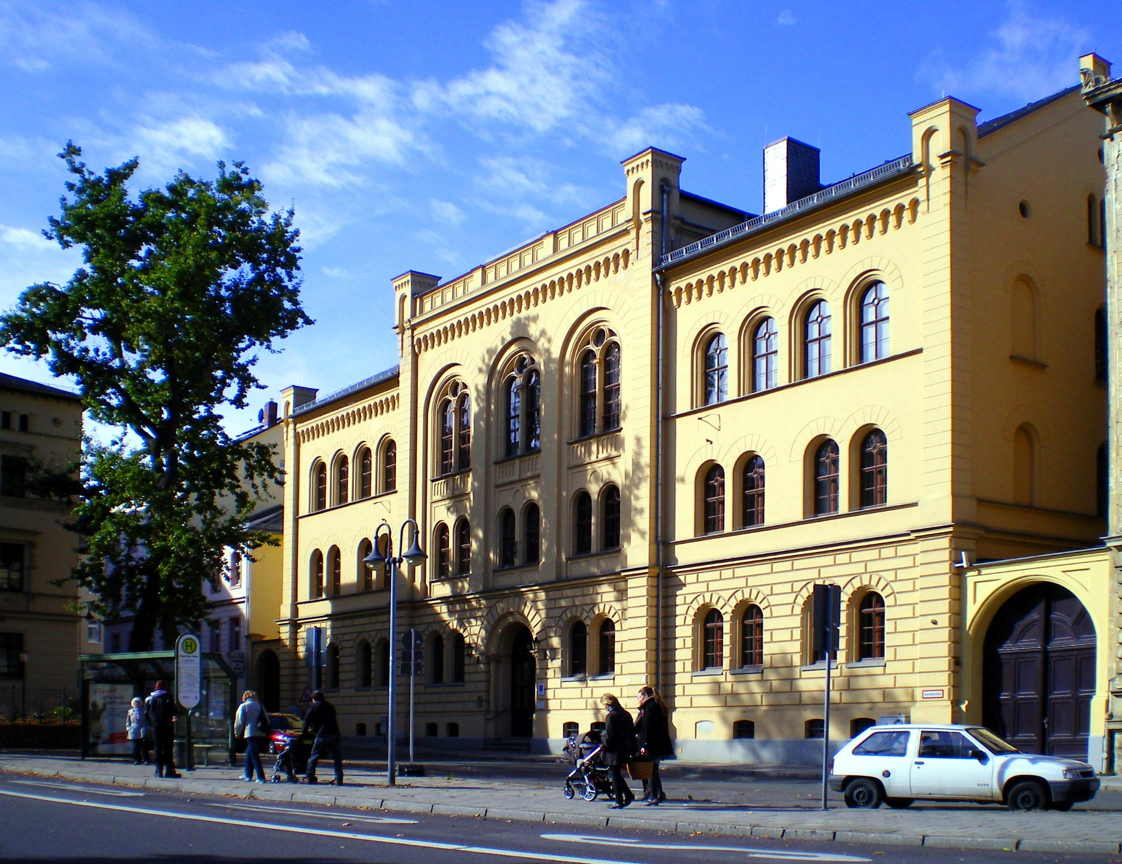 Social Court in Altenburg/Thuringia